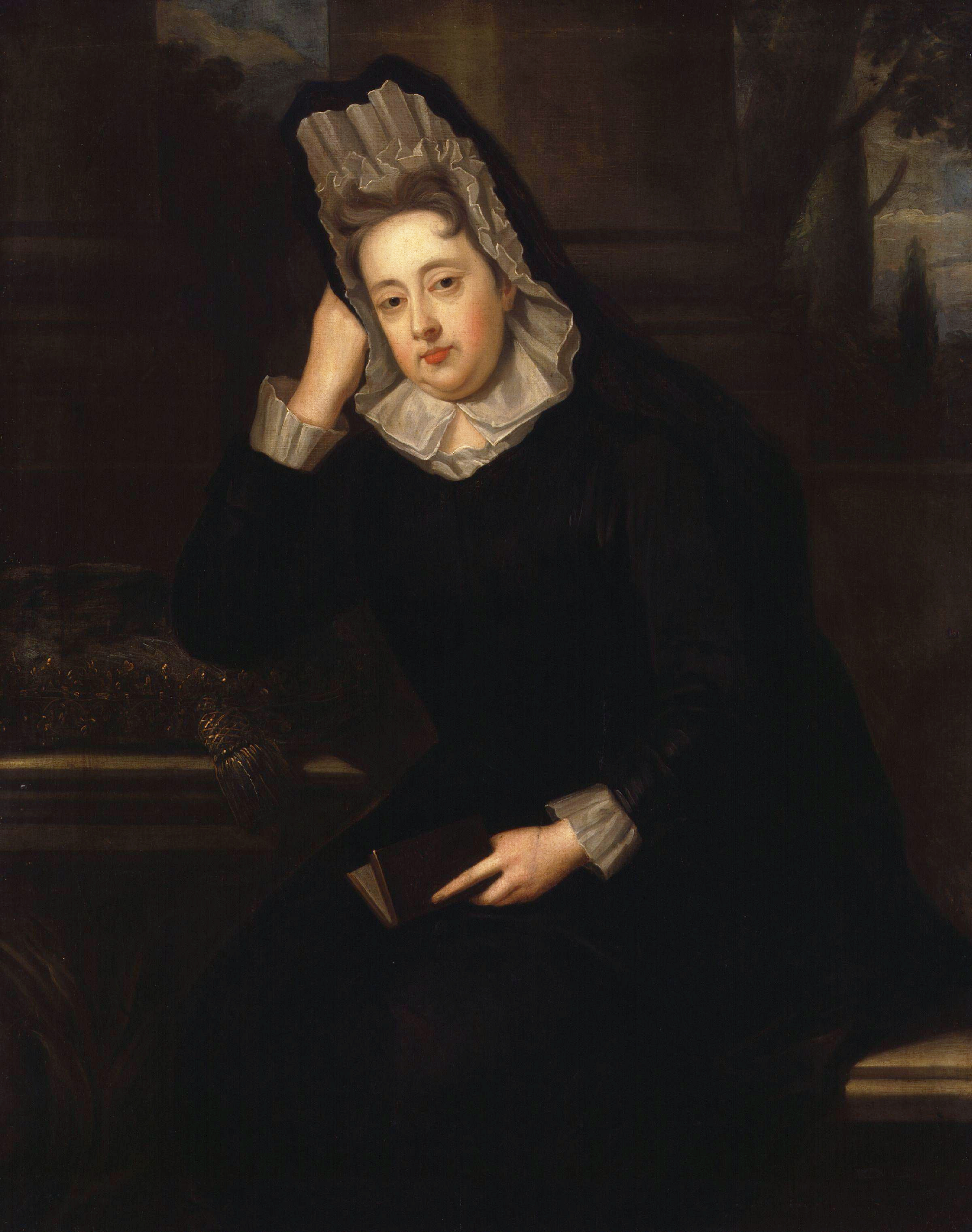 Barbara Palmer (née Villiers), Duchess of Cleveland